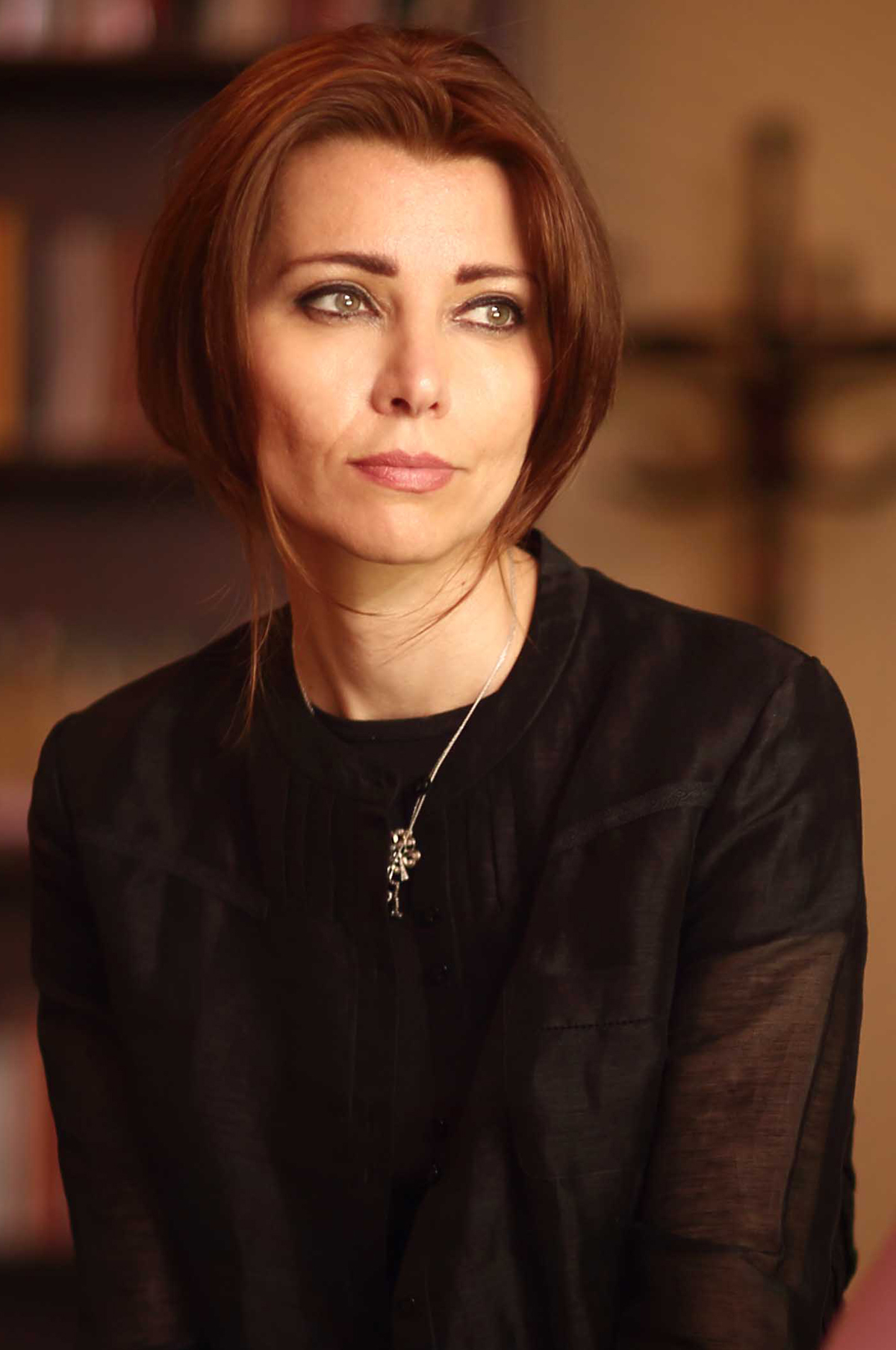 Elif Shafak author photograph